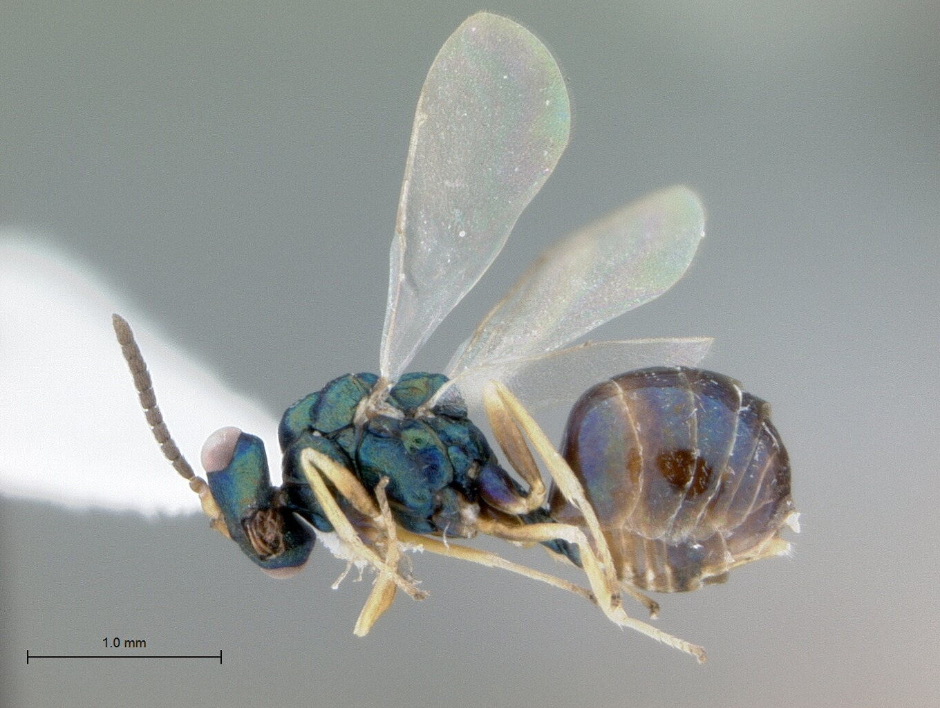 Orasema simplex, specimen from Argentina: Corrientes Pr.: EBCo, 70m 27°33'10"N 58°40'46"W 24 Feb 2005 L. Varrone ex. S. invicta